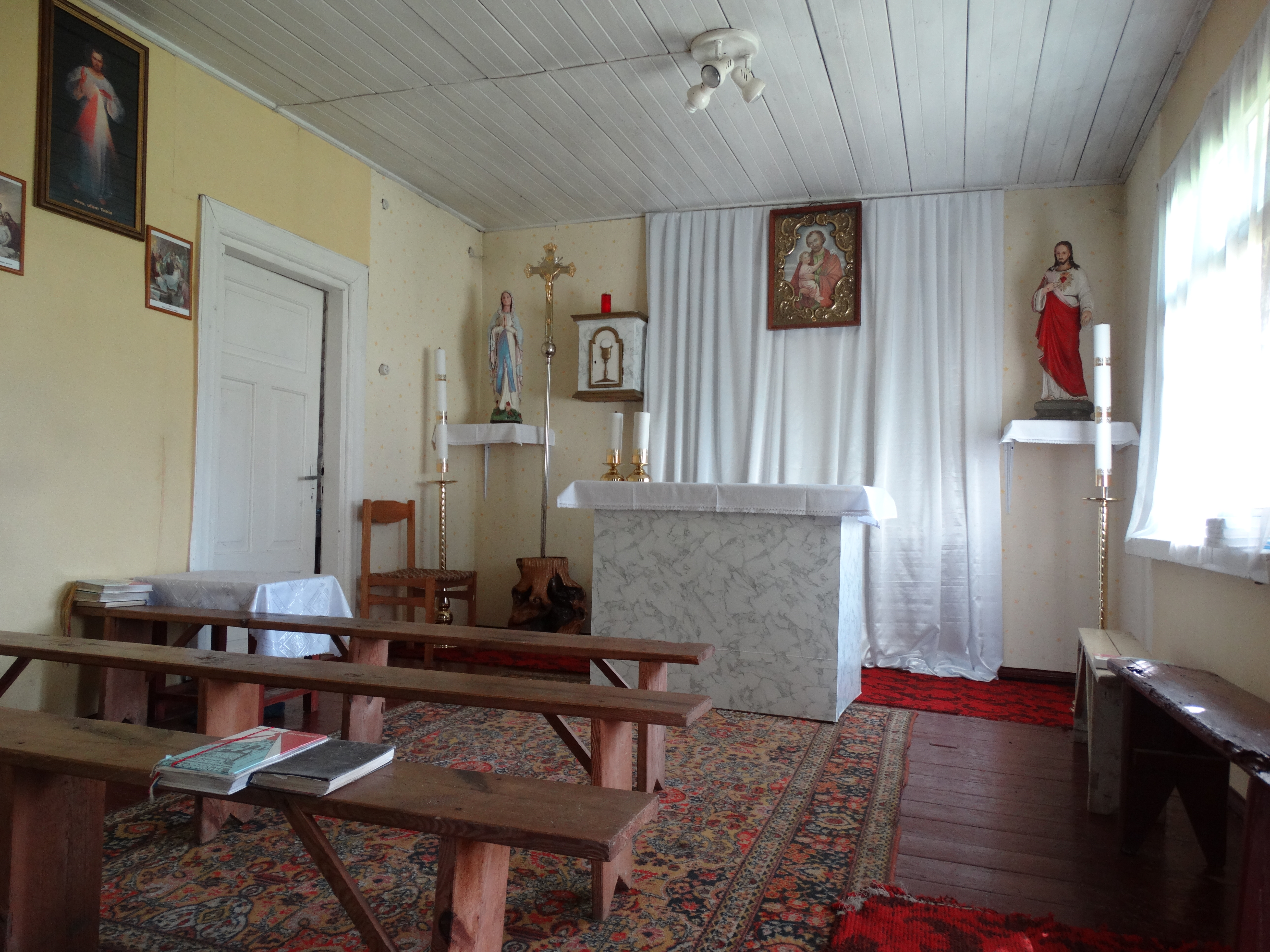 Chapel, Skirlėnai, Vilnius District, Lithuania